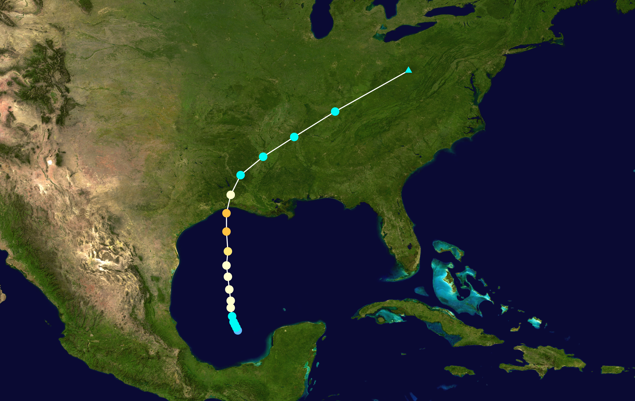 Hurricane Audrey (1957) track. Uses the color scheme from the Saffir-Simpson Hurricane Scale.